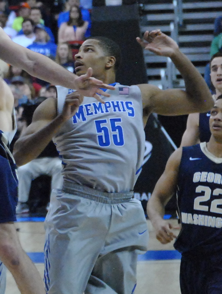 Geron Johnson battles for the rebound